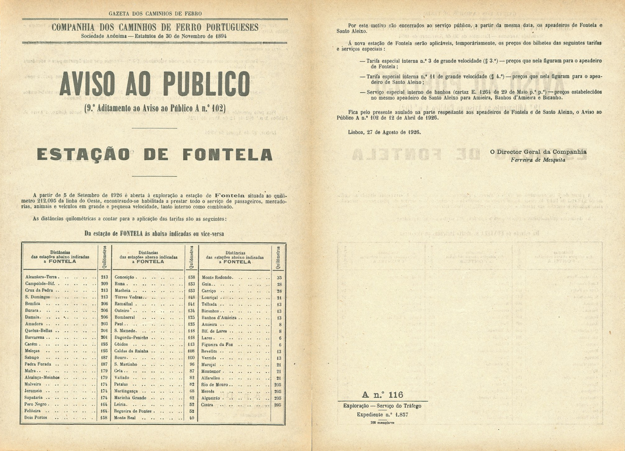 Public notice of the Companhia dos Caminhos de Ferro Portugueses (Company of the Portuguese Railways), for the opening of the Fontela Station, on the Linha do Oeste (Oeste Railway). This image was published on the Gazeta dos Caminhos de Ferro magazine no. 929, of the 1st September 1926, and scanned by the Hemeroteca Municipal de Lisboa.